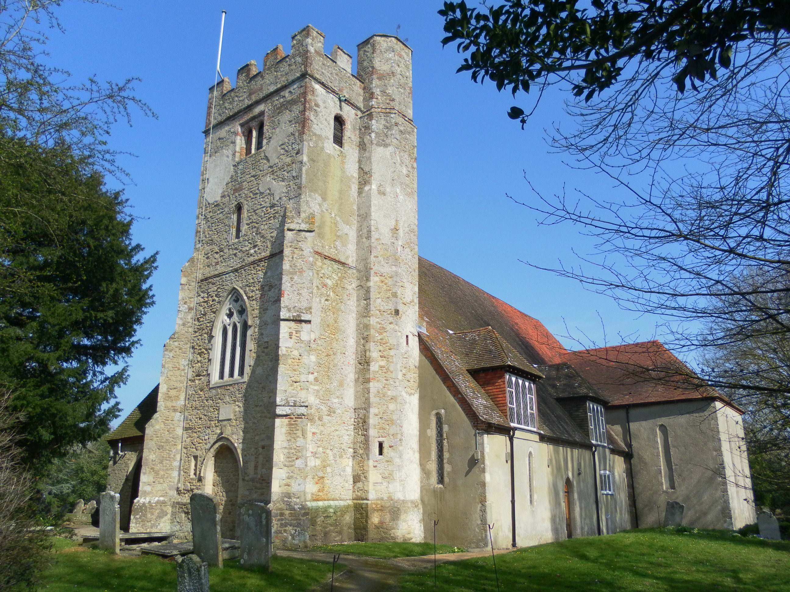 St Mary's parish church, Sidlesham, West Sussex, England, seen from the southwest